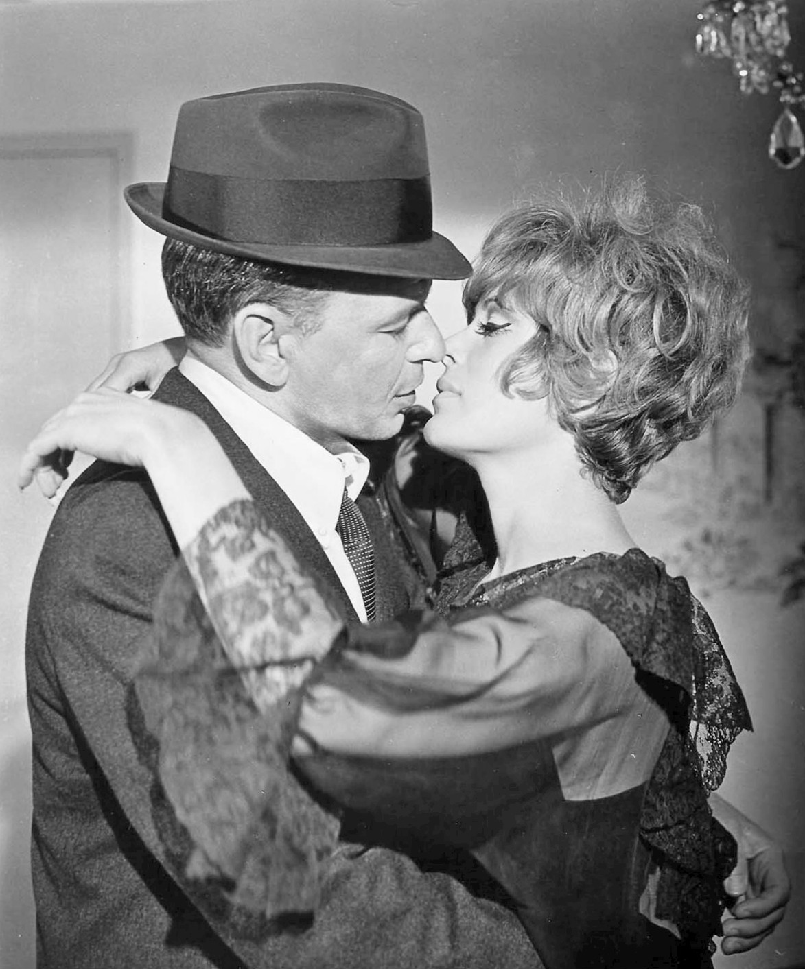 Photo of Frank Sinatra and Jill St. John from the motion picture "Tony Rome". The item has no copyright markings on it as can be seen in the links above.